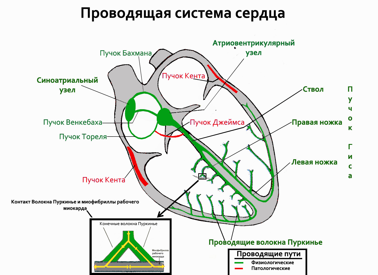 Heart conductive system